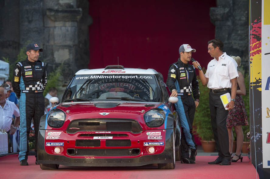 Rally Germany 2012 ADAC Rallye Deutschland,Carlos del Barrio,Ceremonial Start,Dani Sordo,Daniel Sordo,Mini John Cooper Works WRC,Motorsport,Prodrive WRC Team,Rally,Rallye,Rallye Deutschland,WRC